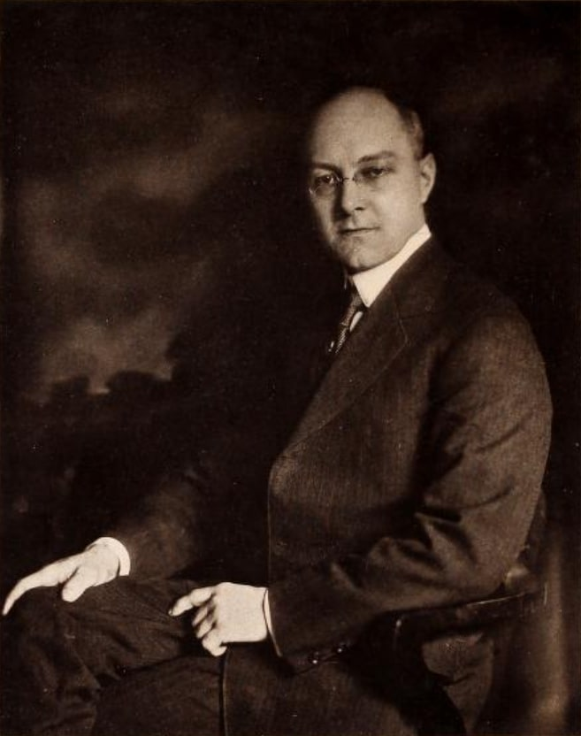 Portrait of Claude Moore Fuess, 10th Headmaster of Phillips Academy Andover 1933-1948, from the 1918 Pot Pourri.